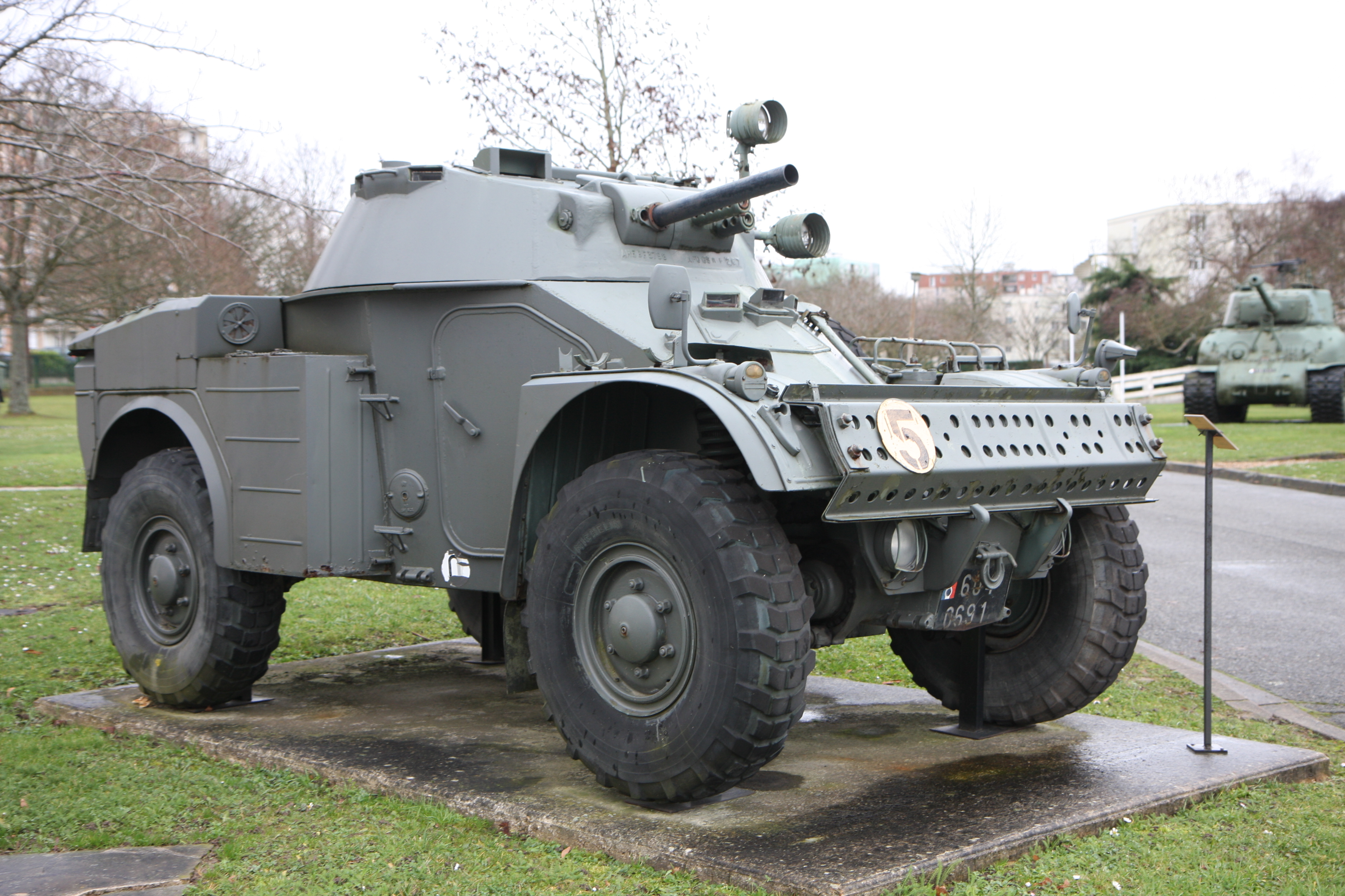 AML 60